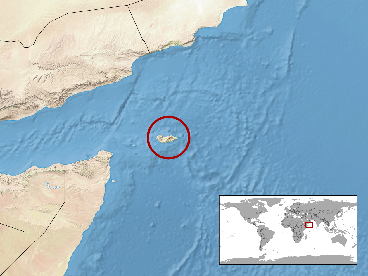 geographic distribution of Hemidactylus granti (Native: Yemen)